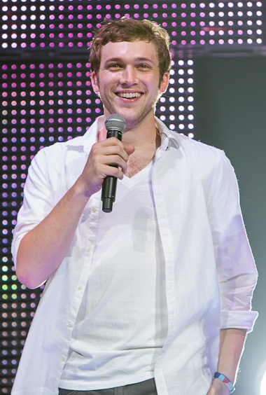 A photo of singer Phillip Phillips at the American Idol Live! Tour in Seattle Center's Key Arena last July 2012.